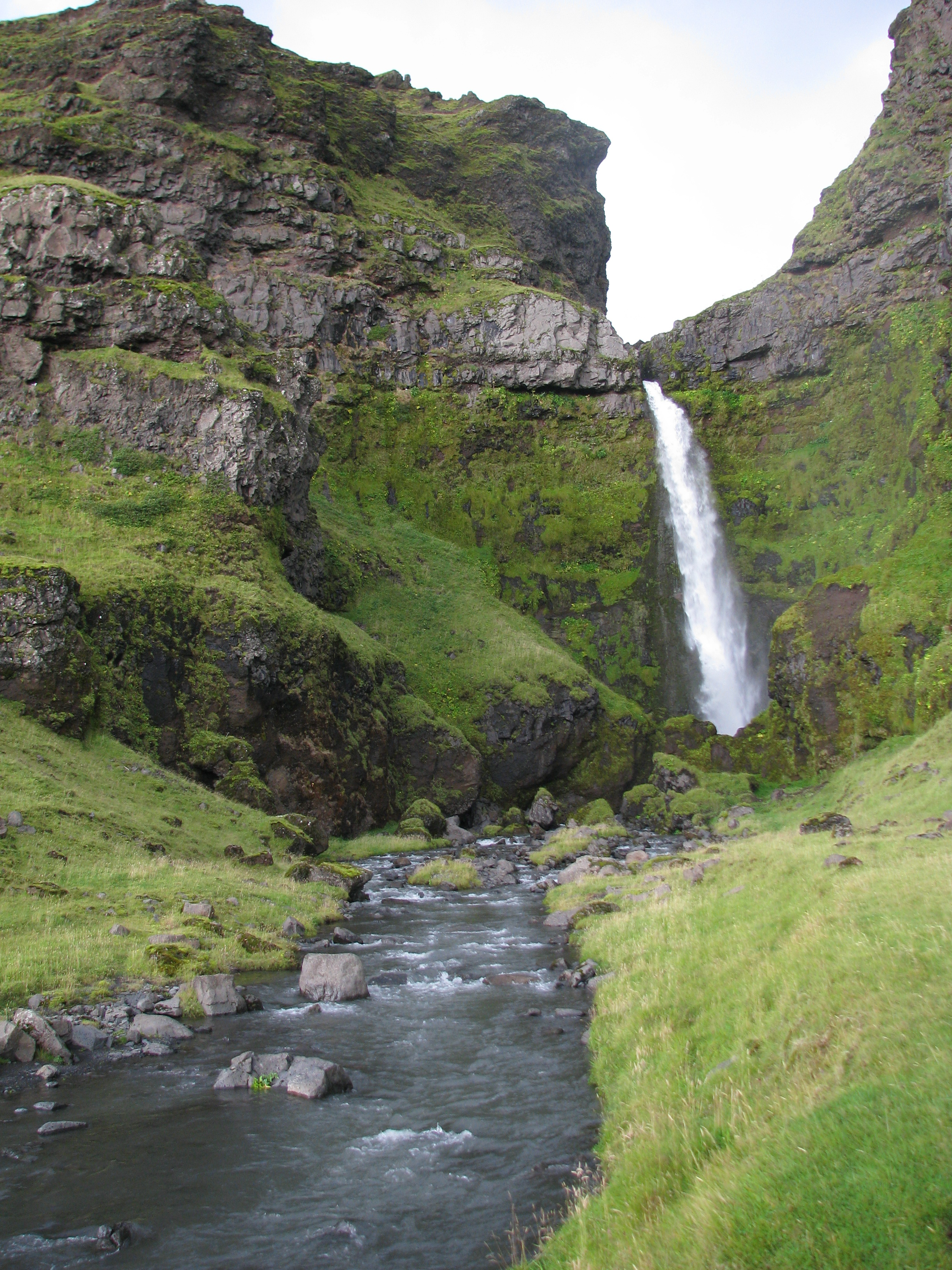 Írárfoss, waterfall, Iceland